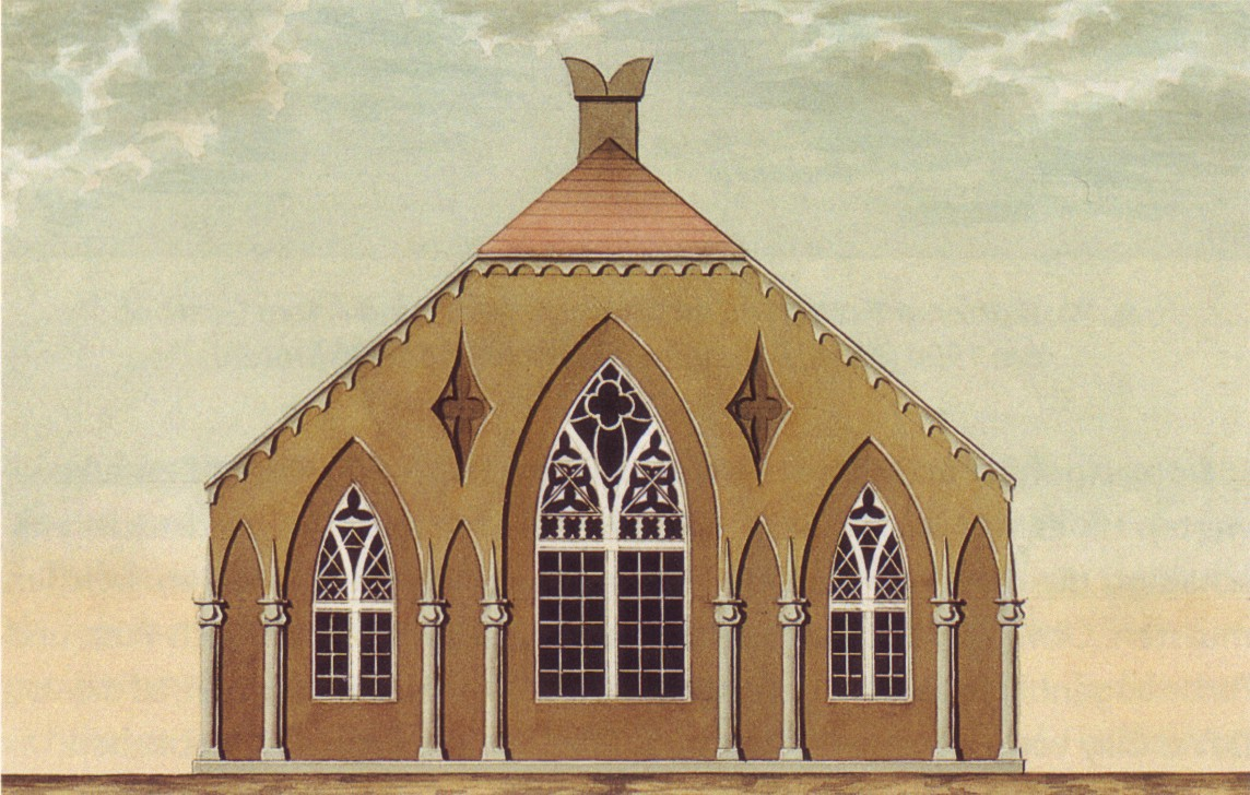 Illustration from the "Paretzer Skizzenbuch" (sketchbook). The so called "Gotisches Haus" (Gothic house) in Paretz near Potsdam, Germany.